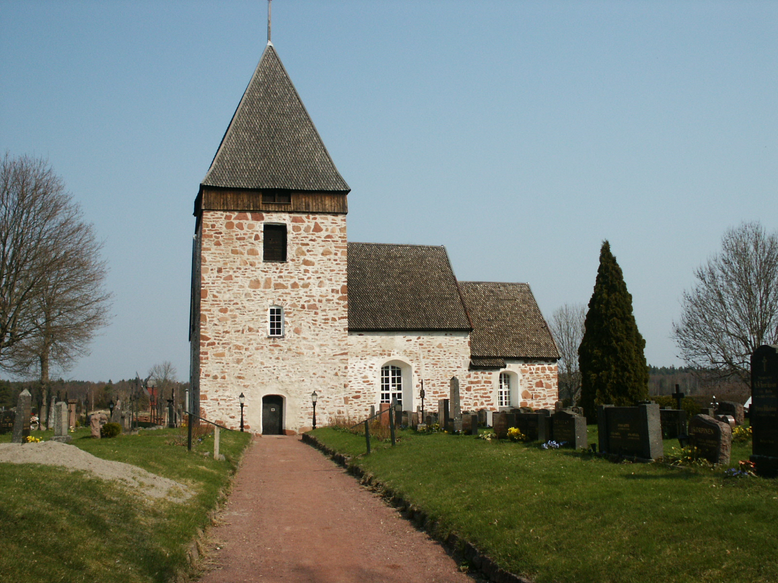 Hammarland church seen from the main gate, Åland, Finland, 14th century stone church